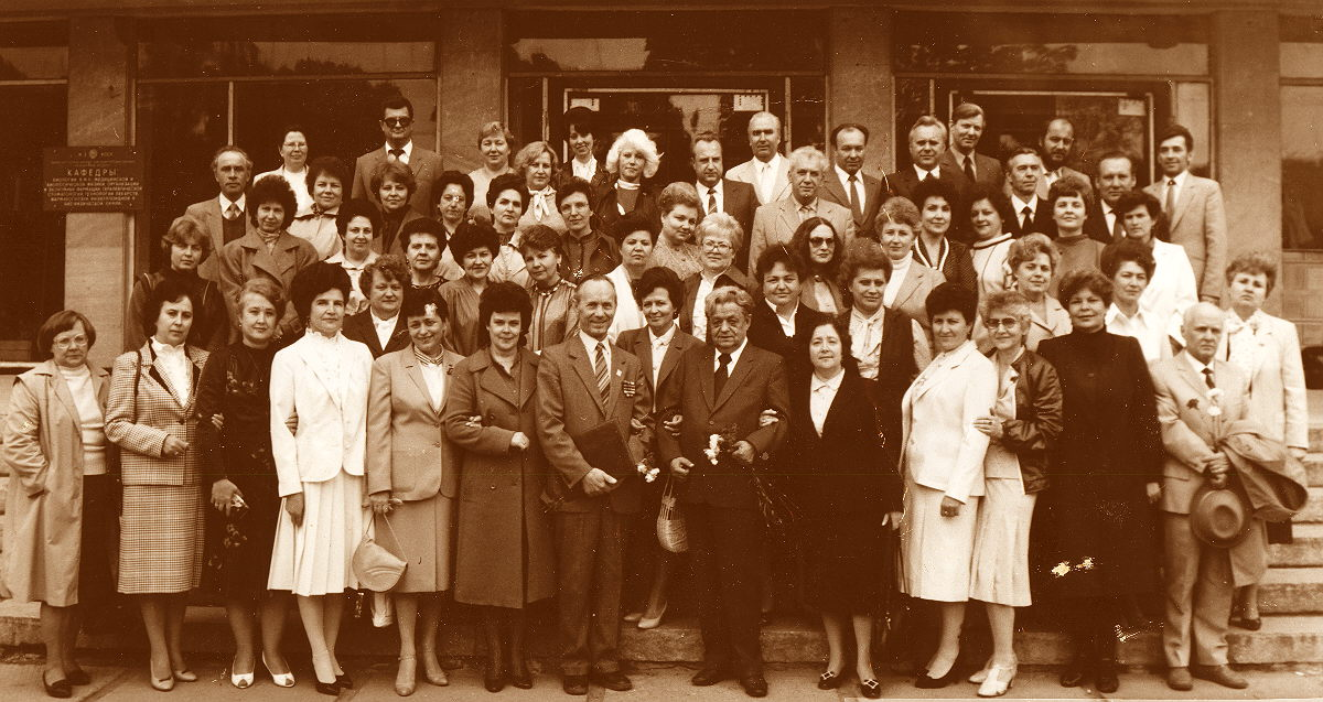 Professor Vasily Kramarenko among graduates in 1962 of pharmaceutical faculty of Danylo Halytsky of Lviv National Medical University (Photo — Lviv, May 1987)